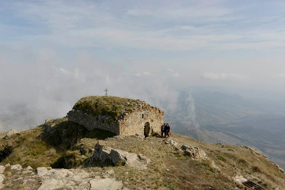 Dizapayt, photo is made by me